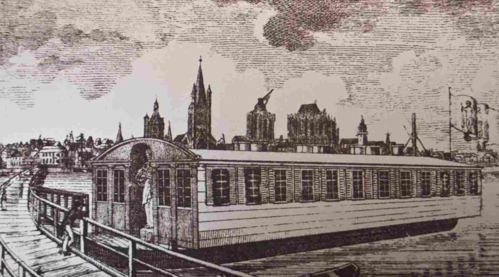 bathing ship cologne